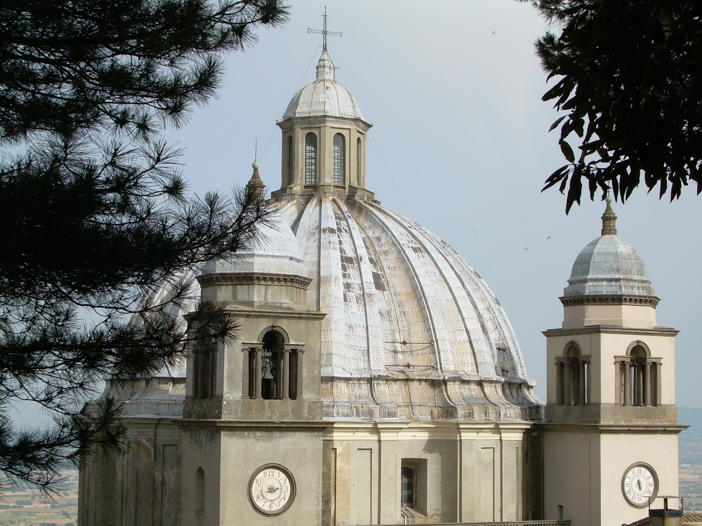 Cathedral of Saint Margaret, in Montefiascone, Italy